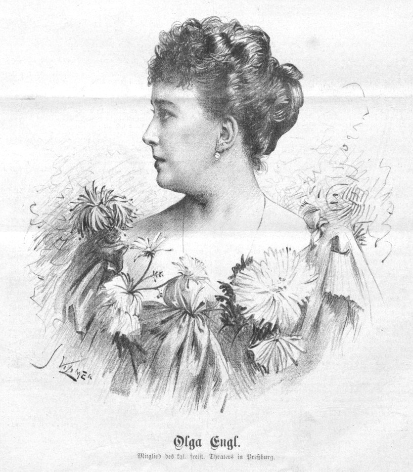 Portrait of Olga Engl (1871-1946), Austrian actress.